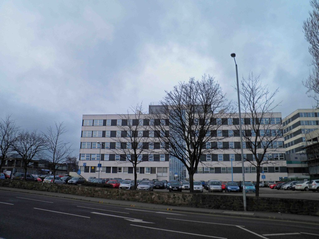 Barnsley District General Hospital from Pogmoor Road